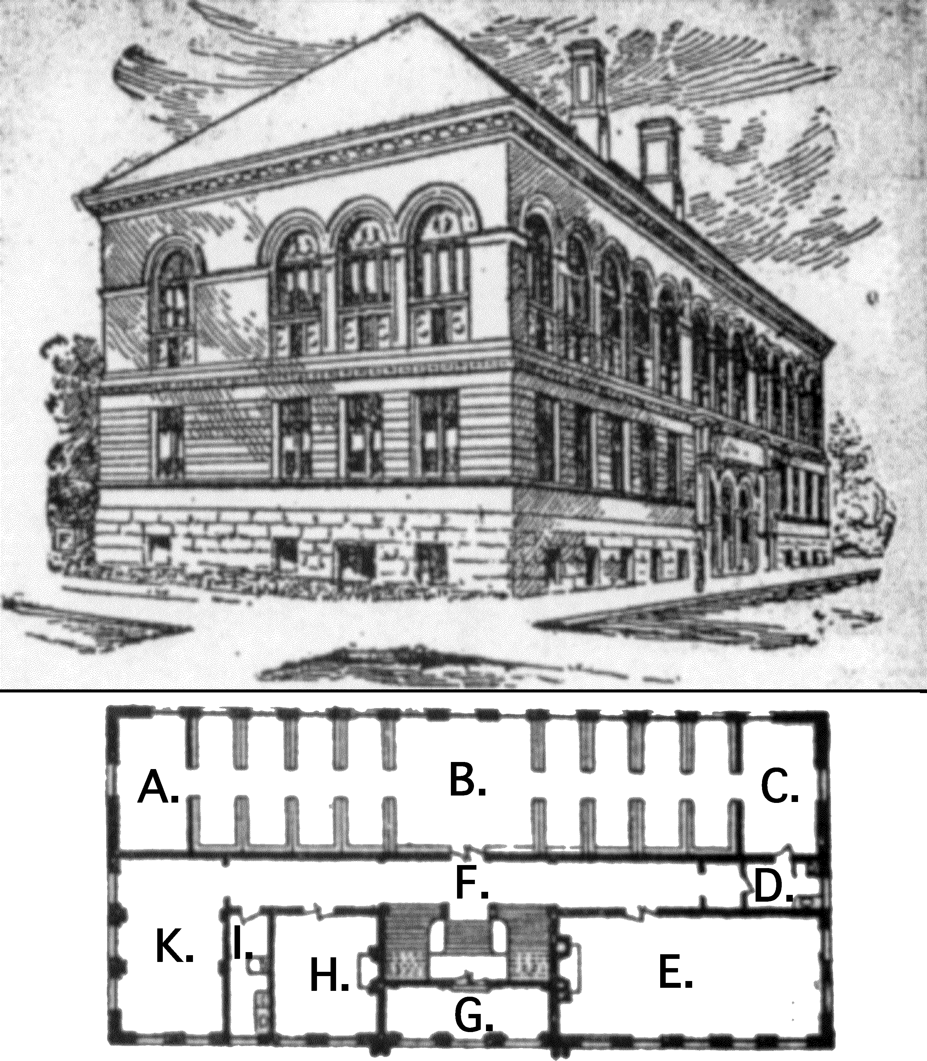 Library building in downtown Portland, Oregon (on Stark Street between 7th and Park Avenues); derived from rendering first published by the Oregonian, 1893. Legend: Librarian Stack Room Ladies Room Toilet Newspapers Corridor Vestibule Chess Room Toilet Magazines